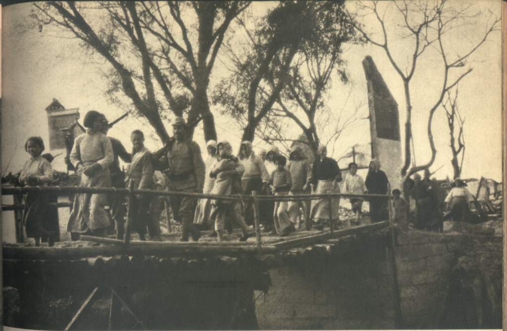 Japanese soldiers escorting Chinese farmers from their fields to home at Shengjiaqiao village, Paoshan Prefecture, Jiangsu Province. Taken by Kumazaki Tamaki on October 14, 1937., Asahi Graph Nov. 10, 1937